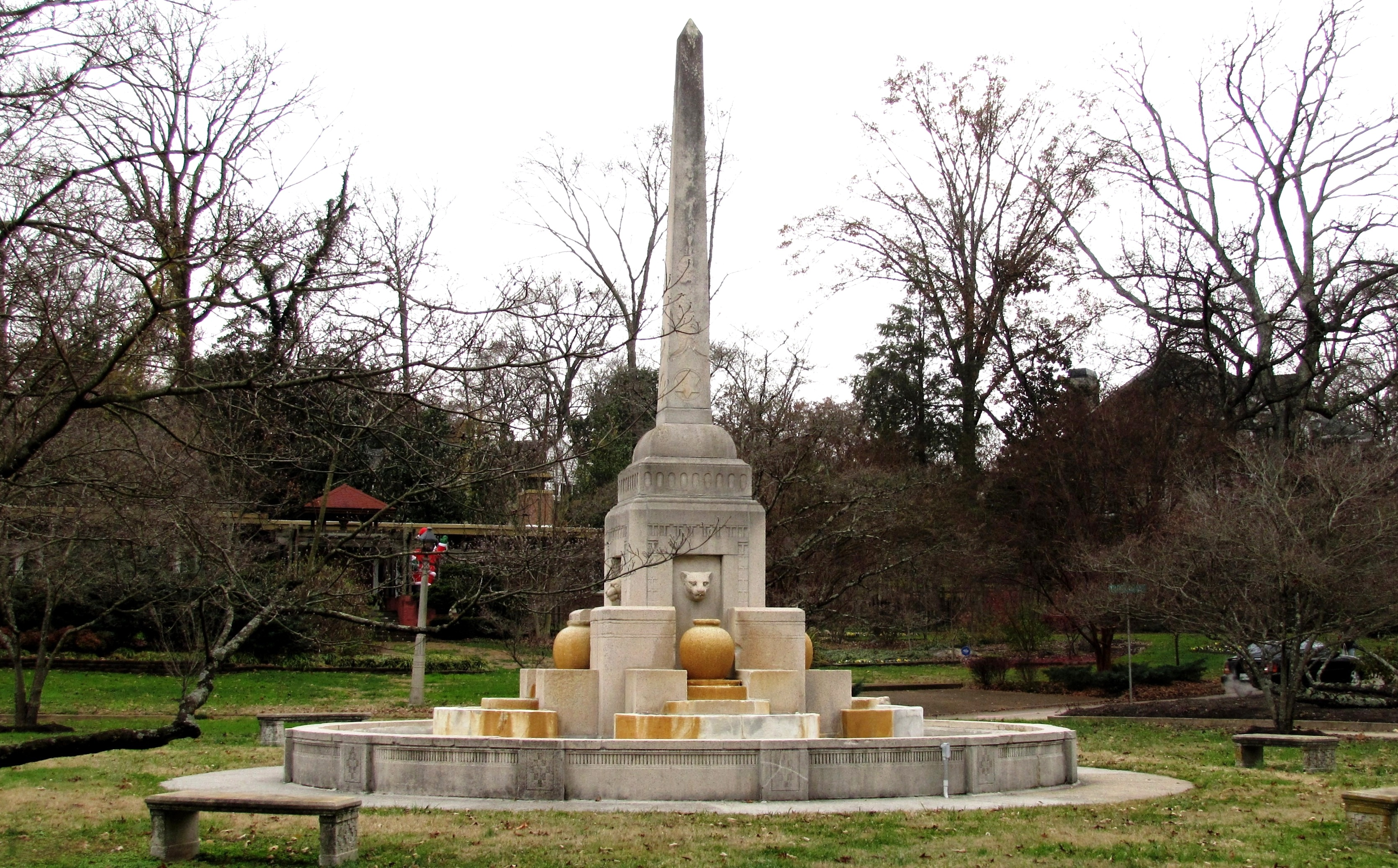 Panther Fountain, at the intersection of Talahi Drive and Taliluna Avenue in the Sequoyah Hills subdivision of Knoxville, Tennessee, USA. Built in the late 1920s, this fountain is now a contributing structure within the NRHP-listed Talahi Improvements Historic District.